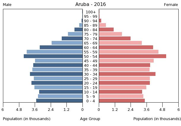 The population pyramid of Aruba illustrates the age and sex structure of population and may provide insights about political and social stability, as well as economic development. The population is distributed along the horizontal axis, with males shown on the left and females on the right. The male and female populations are broken down into 5-year age groups represented as horizontal bars along the vertical axis, with the youngest age groups at the bottom and the oldest at the top. The shape of the population pyramid gradually evolves over time based on fertility, mortality, and international migration trends.